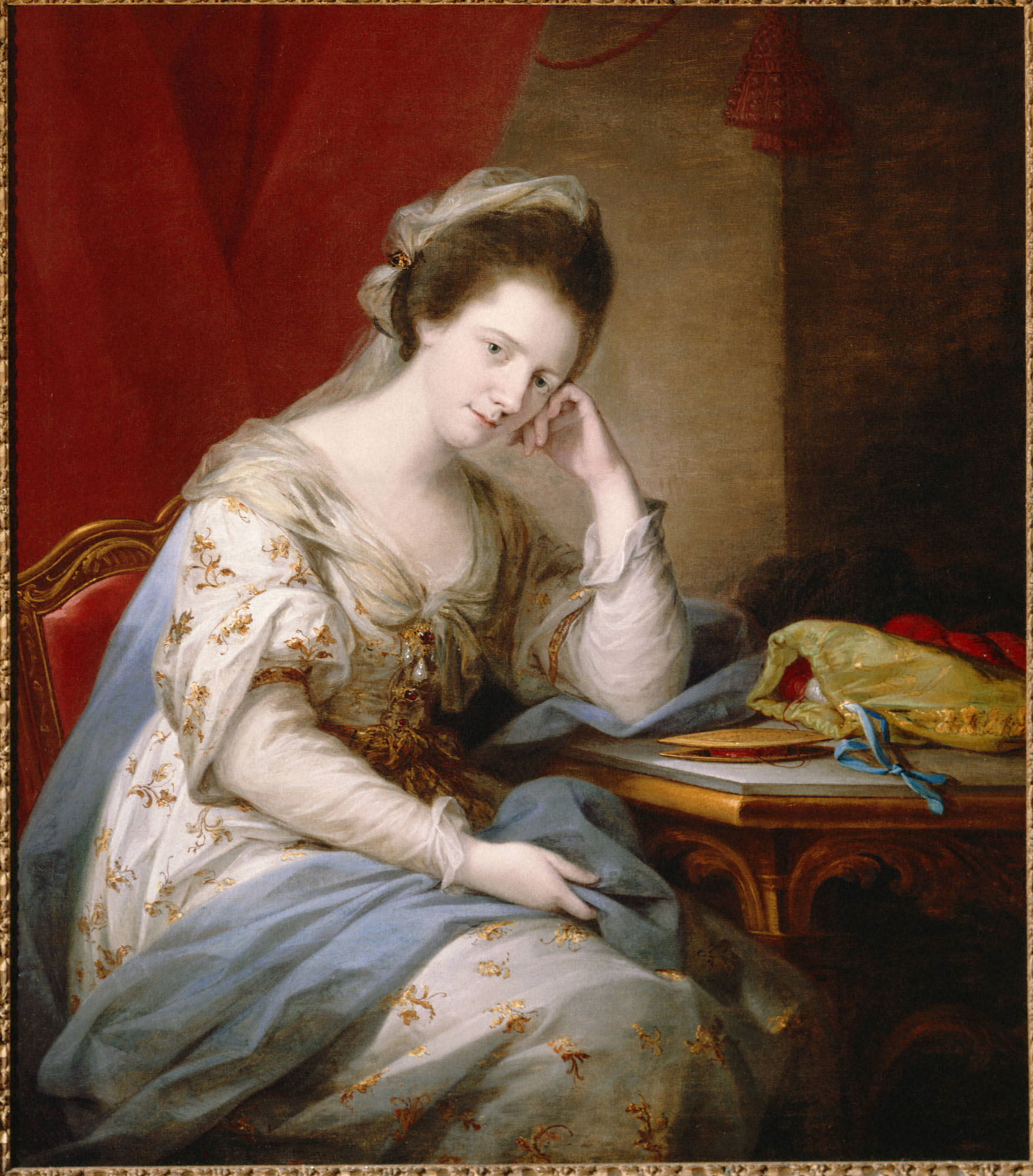 The second wife of the Earl of Coventry, who was born Barbara St. John Bletsoe, is shown as an aristocrat dressed in fine muslin embroidered with gold thread and wearing a golden pin with a ruby and dangling pearls. Although she is pensive and at rest, the Countess has beside her on the table a large shuttle that attests to her industry and skill in fancy work. The instrument was used to make knotted lace, a forerunner of the tatted lace made with smaller shuttles by nineteenth- and twentieth-century ladies.